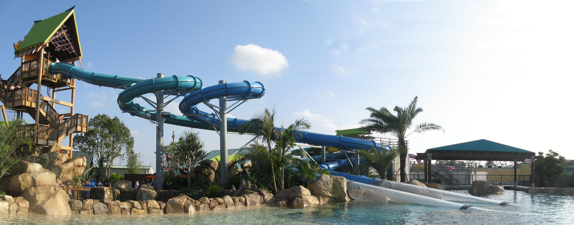 The Dolphin Plunge slide at Aquatica in Orlando. Image was originally stitched from two existing images and then modified slightly.